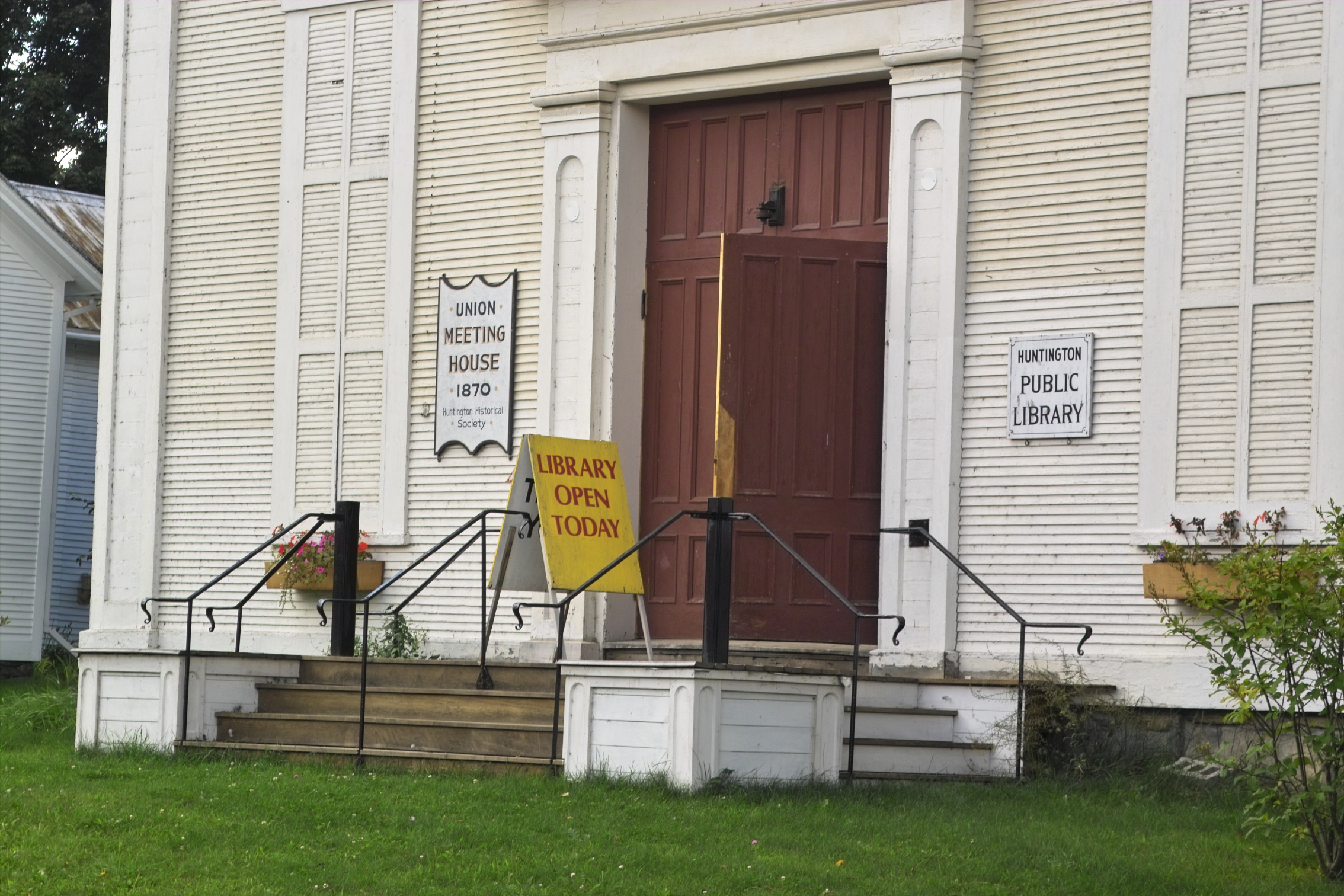 Union Meeting House/Library in Huntington, Vermont, USA.